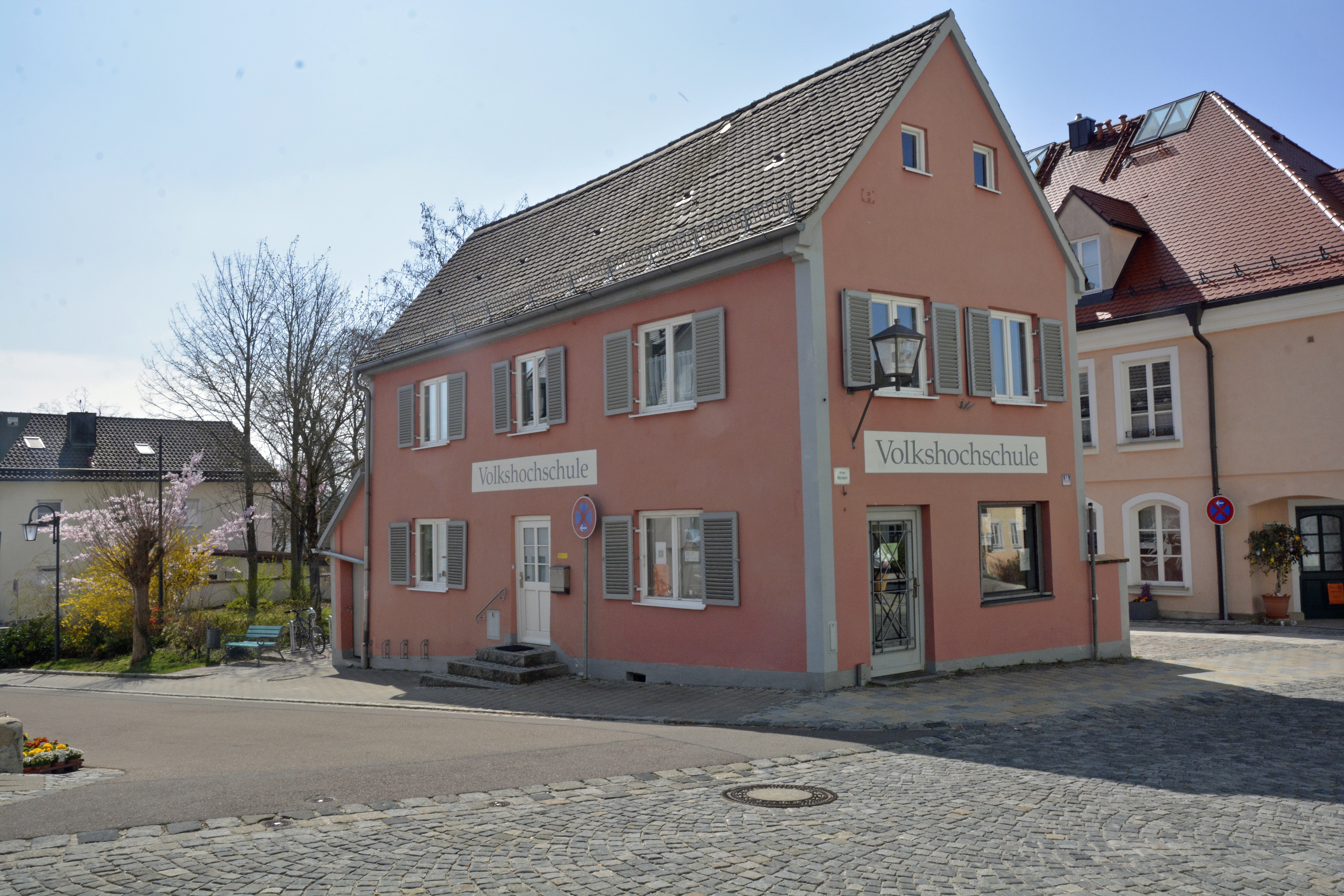 Building of the Adult Education Center (Volkshochschule=VHS) in Altomuenster (District Dachau)